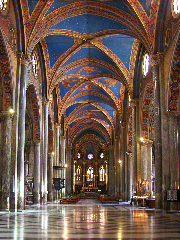 Basilica of Santa Maria sopra Minerva, Rome, Lazio, Italy.